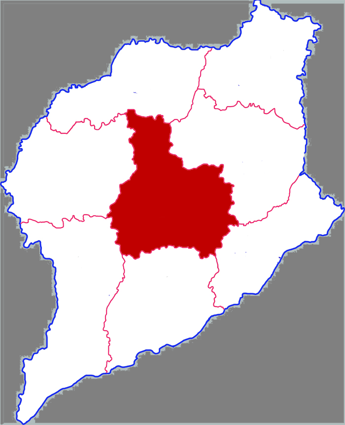 Location of Dongchangfu district in Liaocheng City, China